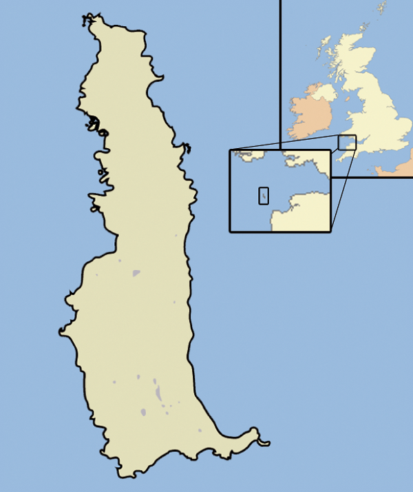 A map of the Island of Lundy, in the English Channel, part of the United Kingdom